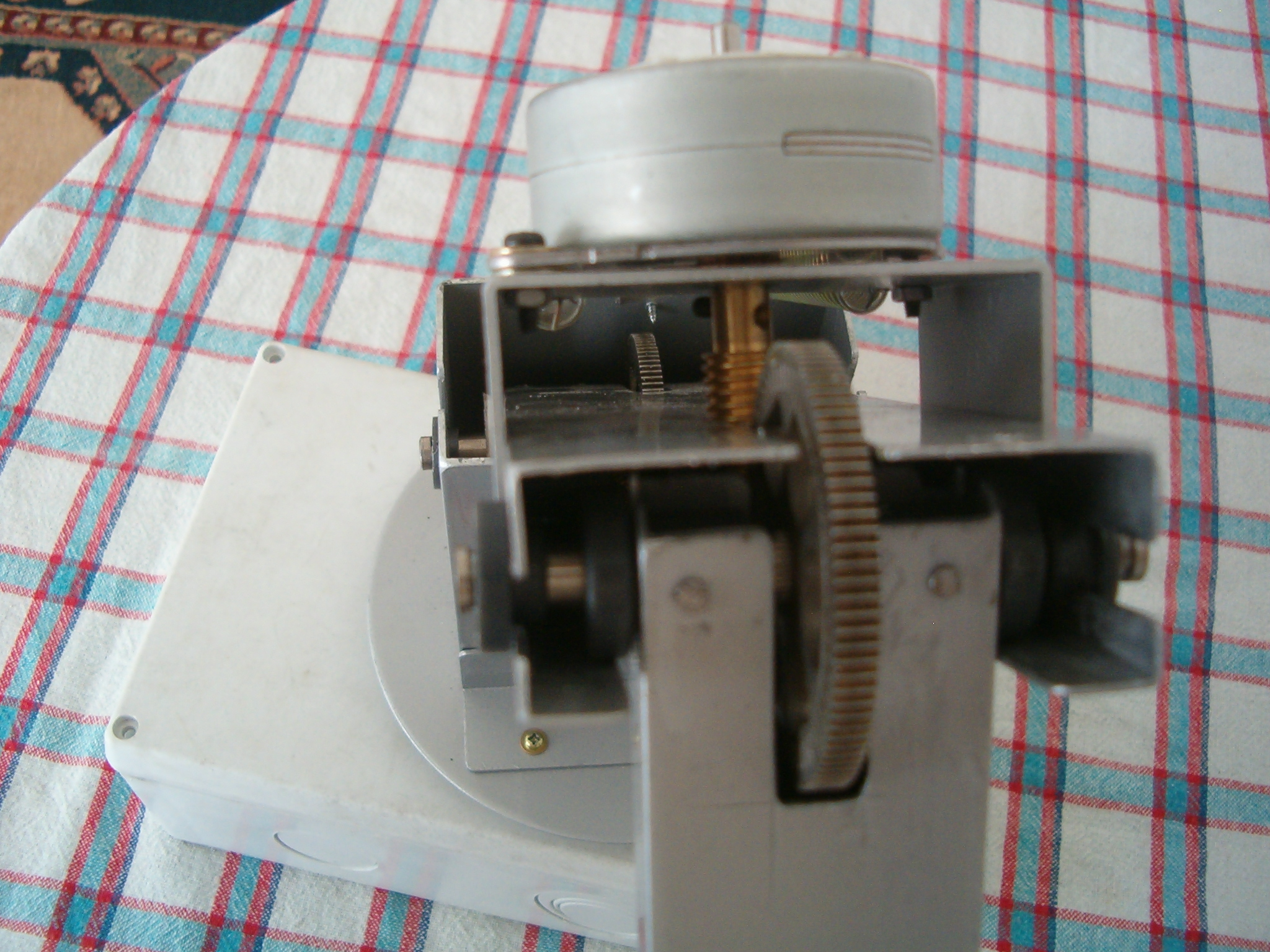 Microp (Microstar Robotic Projects)